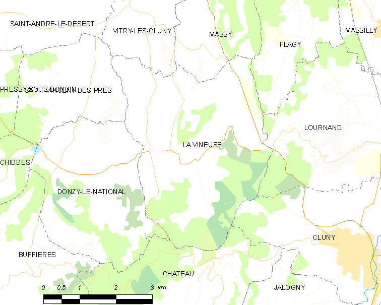 Map of French municipality